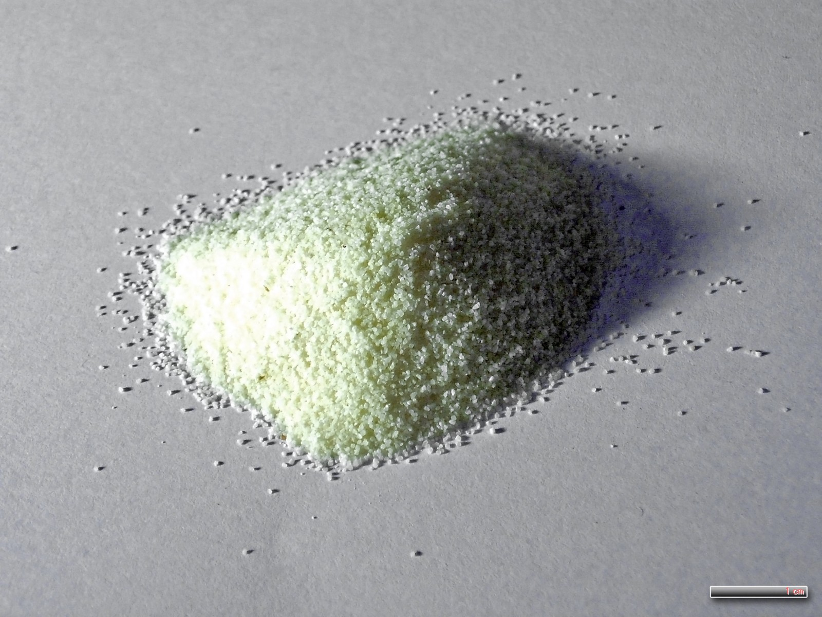 Semolina Wheat farina